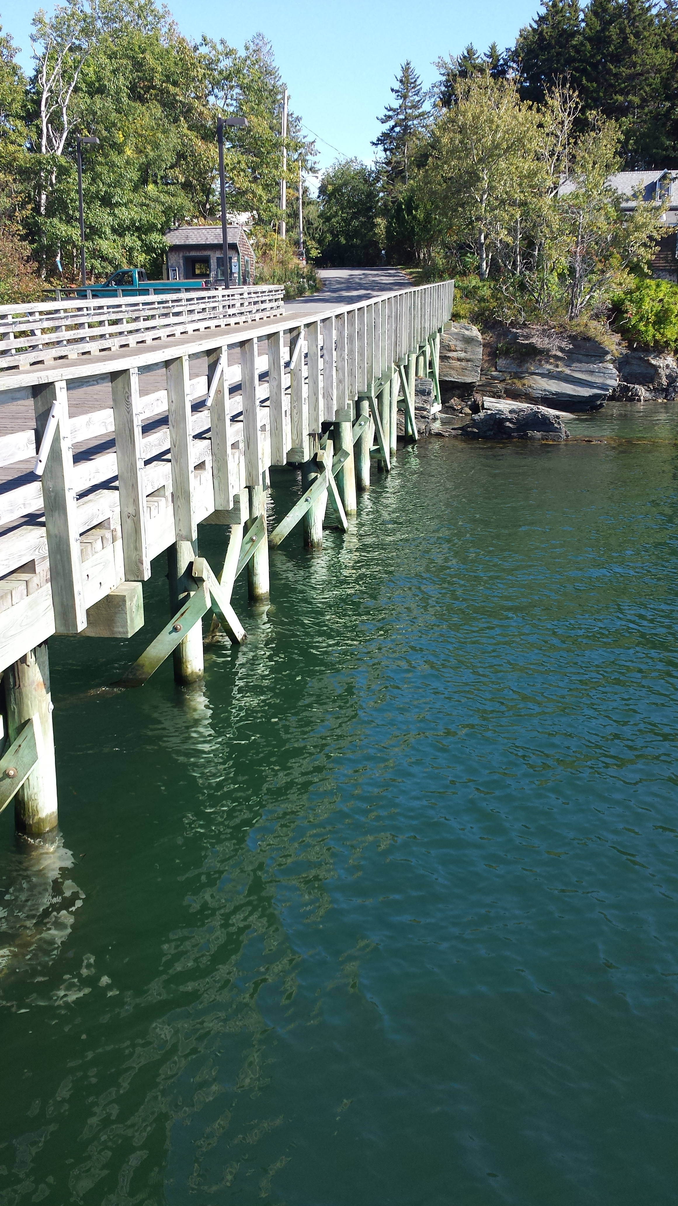 The pier at Casco Bay landing on Chebeague Island, an island town in Cumberland County, Maine, United States, located in Casco Bay